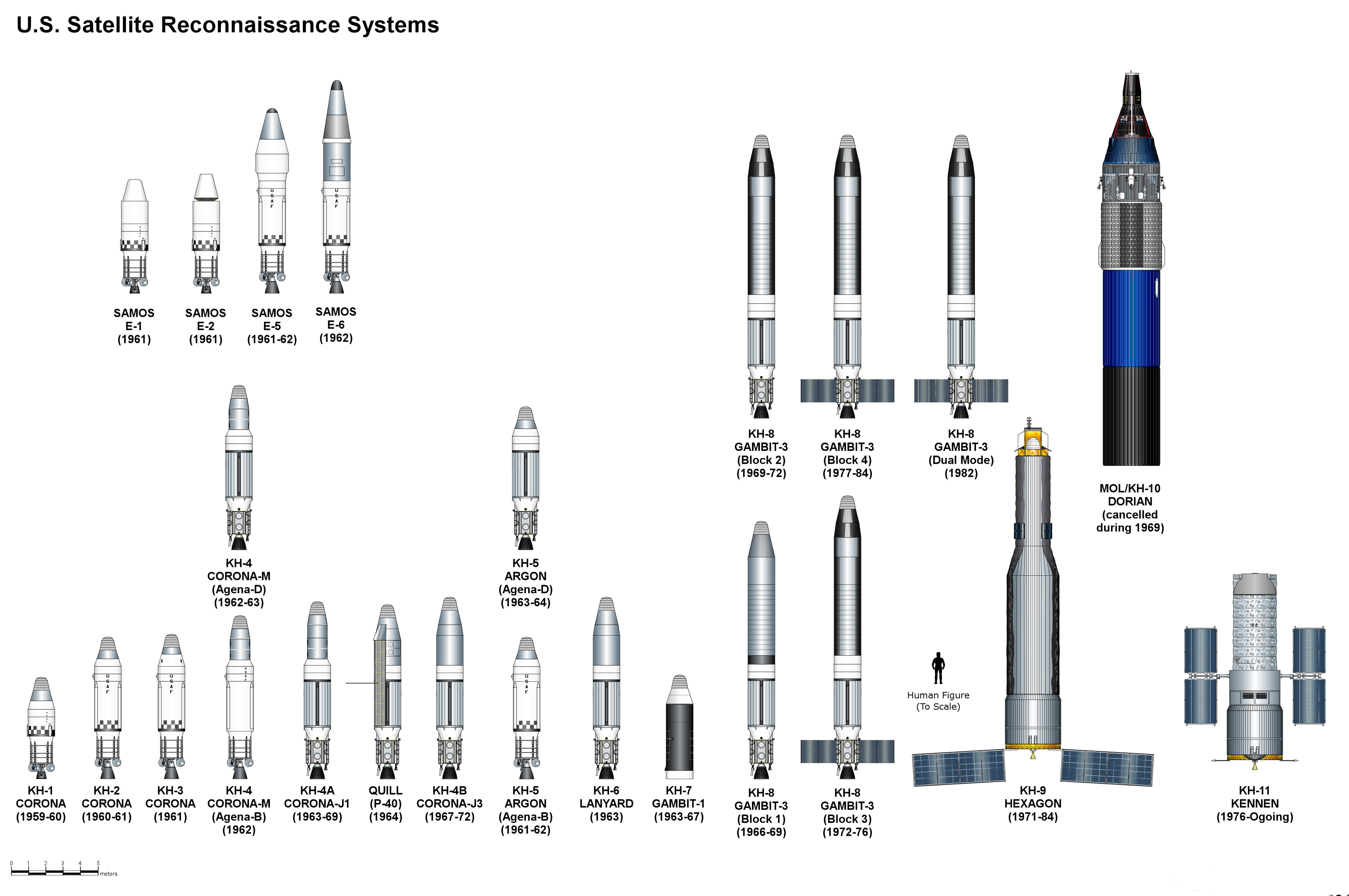 The complete list of U.S. Reconeissance Satellite from 1960 to current days